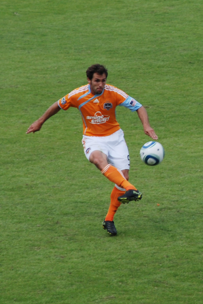 Houston v Chivas USA